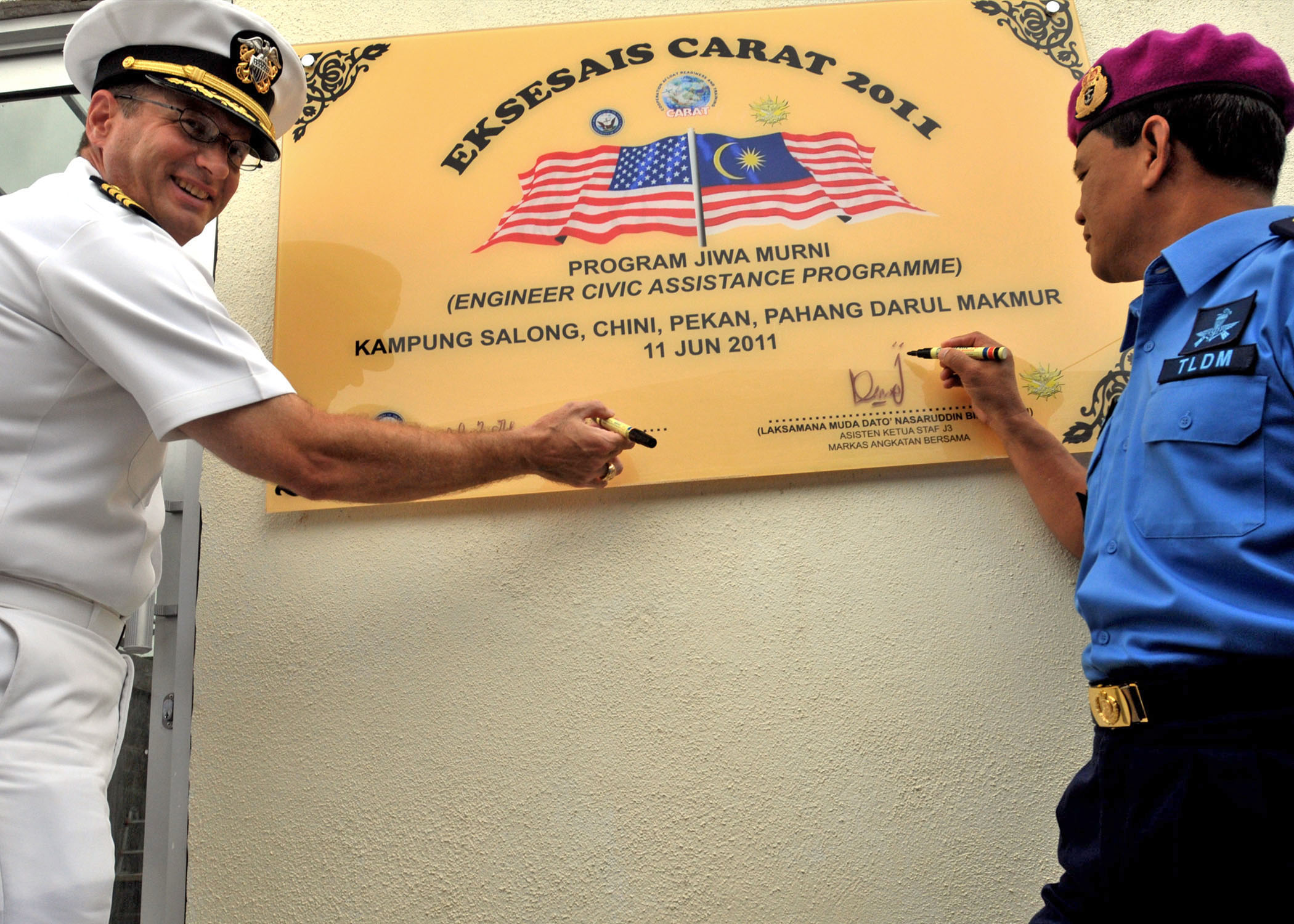 KAMPONG SALONG, Malaysia (June 11, 2011) Capt. John W. Gilman, theater security cooperation director at Commander, Task Force (CTF) 73 and Royal Malaysian Navy Rear Adm. Nasaruddin bin Othman, assistant chief of staff, sign the dedication plaque during the turnover ceremony for a new medical clinic built by U.S. Navy Seabees and Malaysian army engineers during Cooperation Afloat Readiness and Training (CARAT) Malaysia 2011. CARAT is a series of bilateral exercises held annually in Southeast Asia to strengthen relationships and enhance force readiness. (U.S. Navy photo by Mass Communication Specialist 1st Class Robert Clowney/Released)